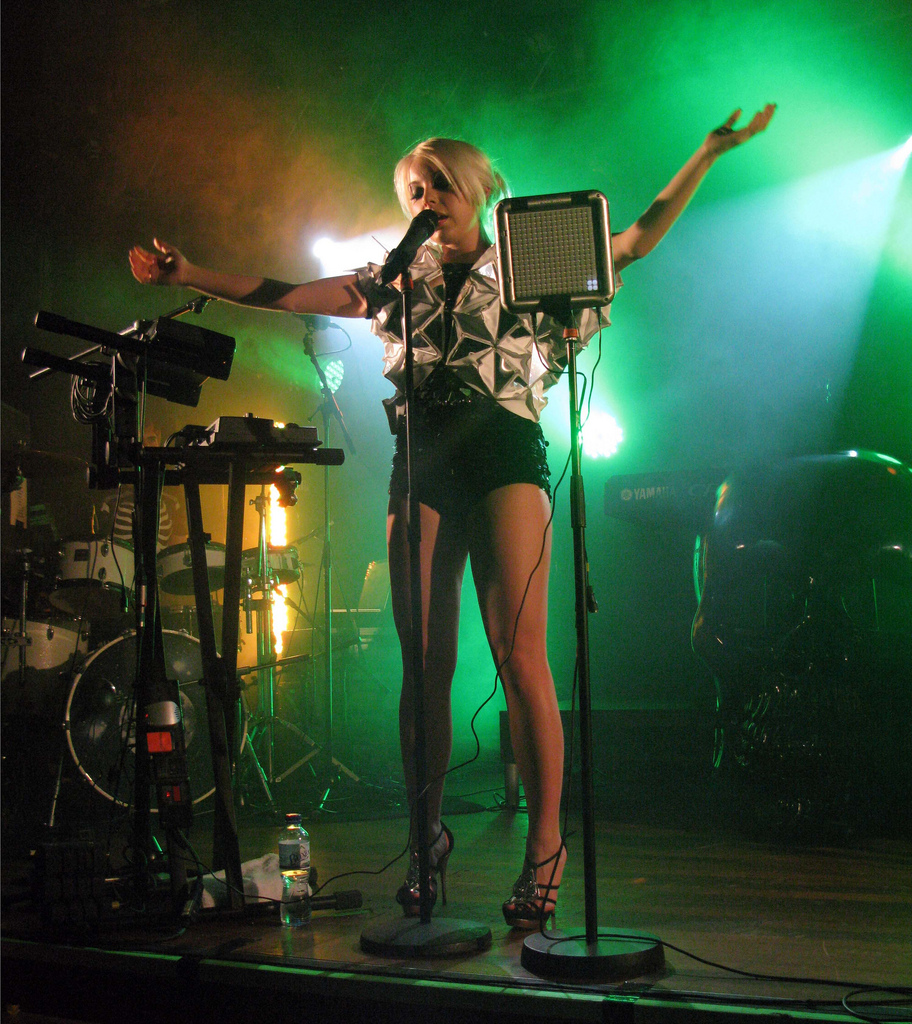 Skulls Aloud UK Tour, Oct/Nov 2009. Sunderland University Campus.